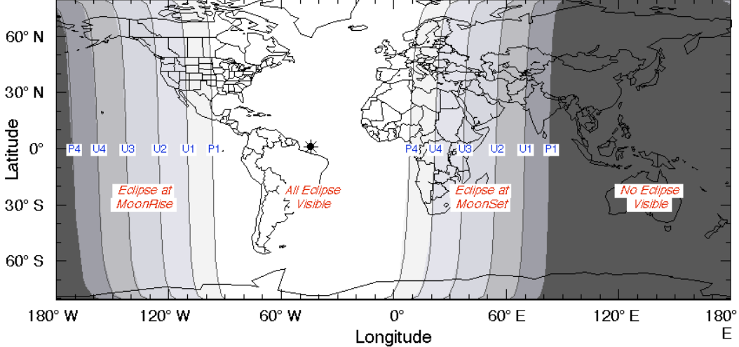 Eclipse visibilty 28 september 2015